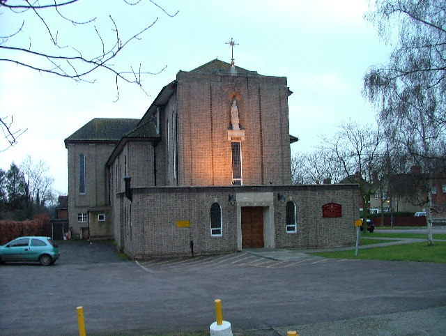 Roman Catholic Church of St Hugh of Lincoln, Pixmore Way, Letchworth Garden City, Hertfordshire, seen from the west. The statue of St Hugh above the west door shows him with his pet swan at his feet.